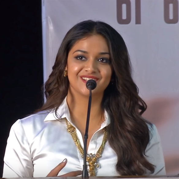 Keerthy Suresh at Sandakozhi 2 Press Meet